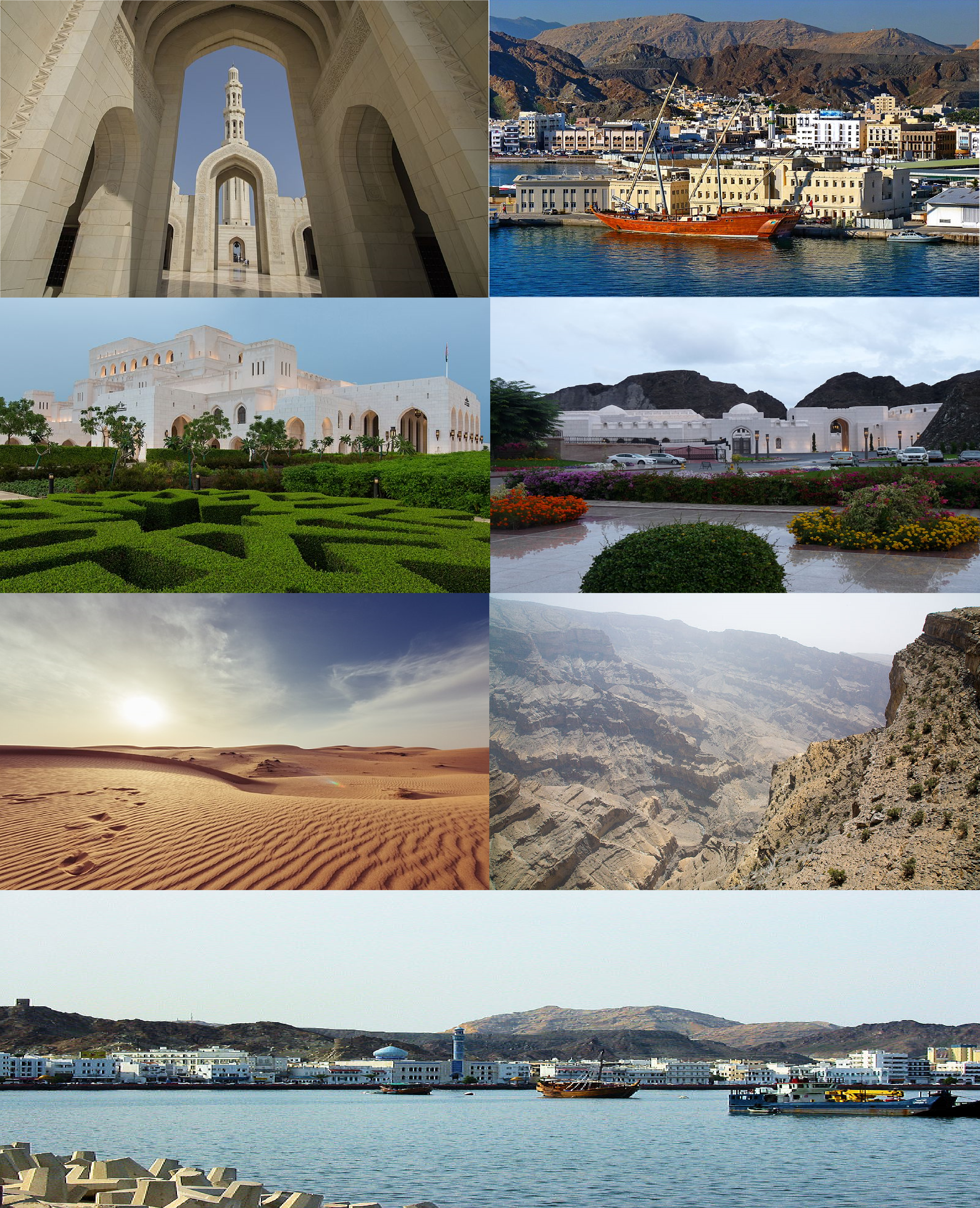 Muscat, Oman